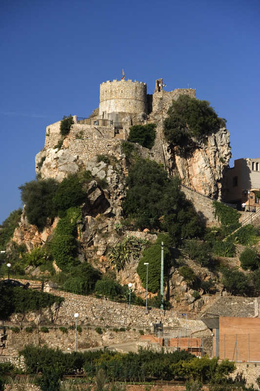 Castle of Pratdip (Baix Camp, Catalonia)